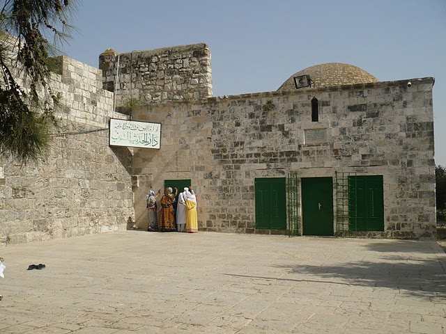 Mausoleum_of_Nabi_Suleman